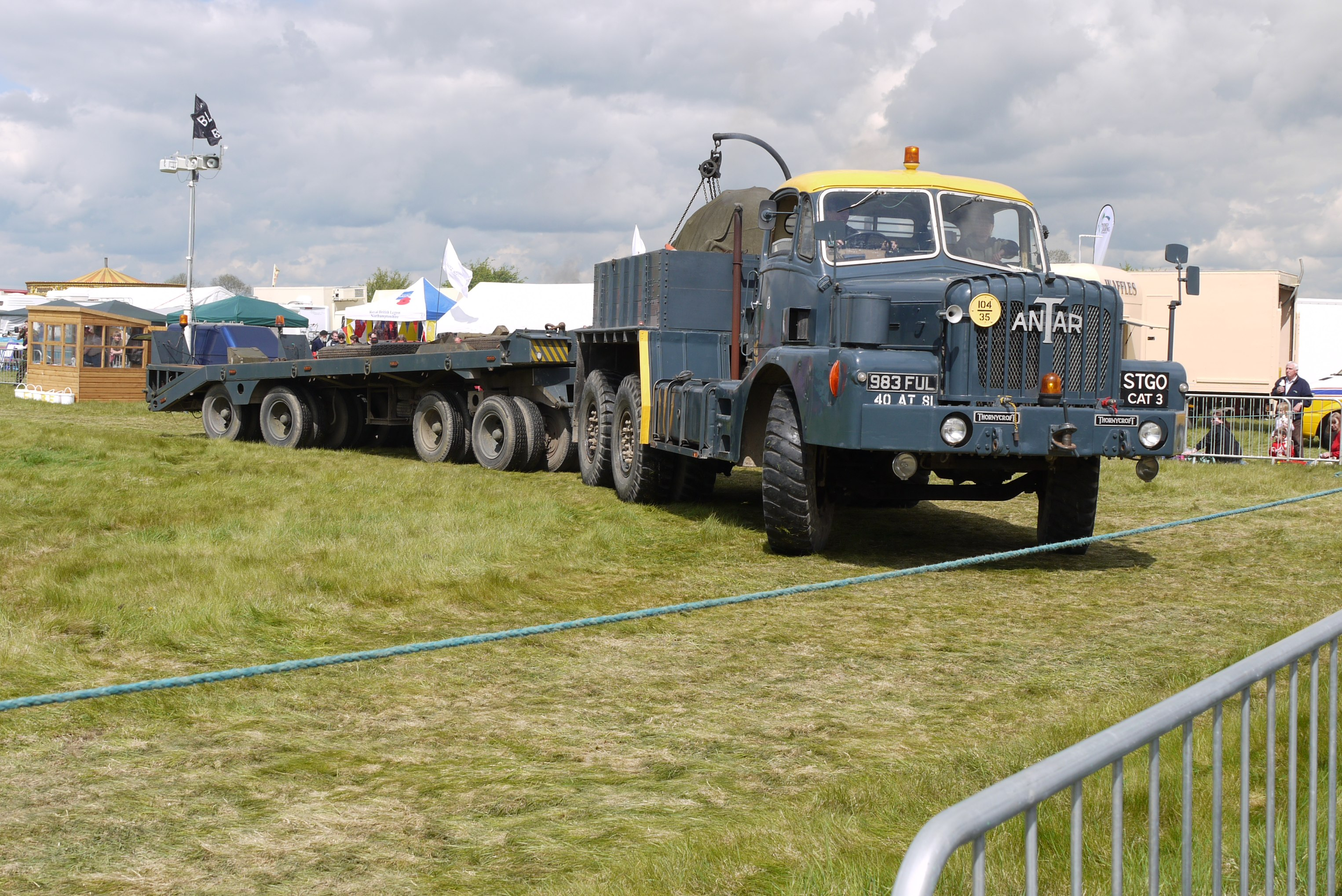 RAF Thornycroft Antar Lorry.